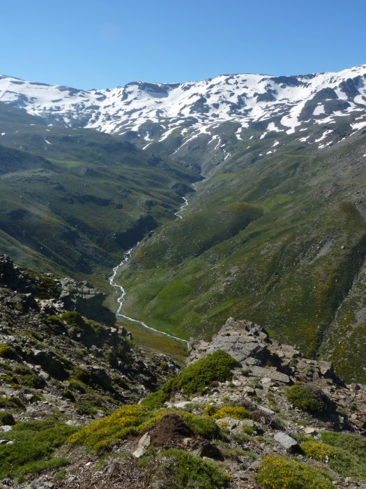 Dílar river